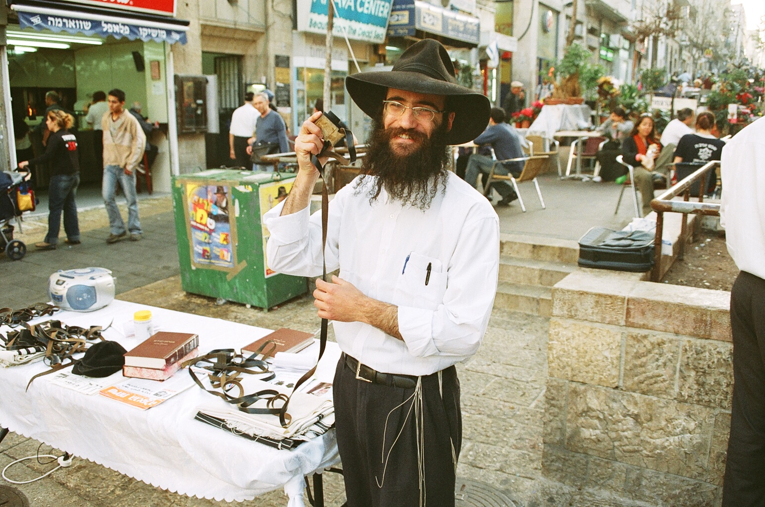 Ben Yehuda Street, Jerusalem Religious Jew on a Daily-Market